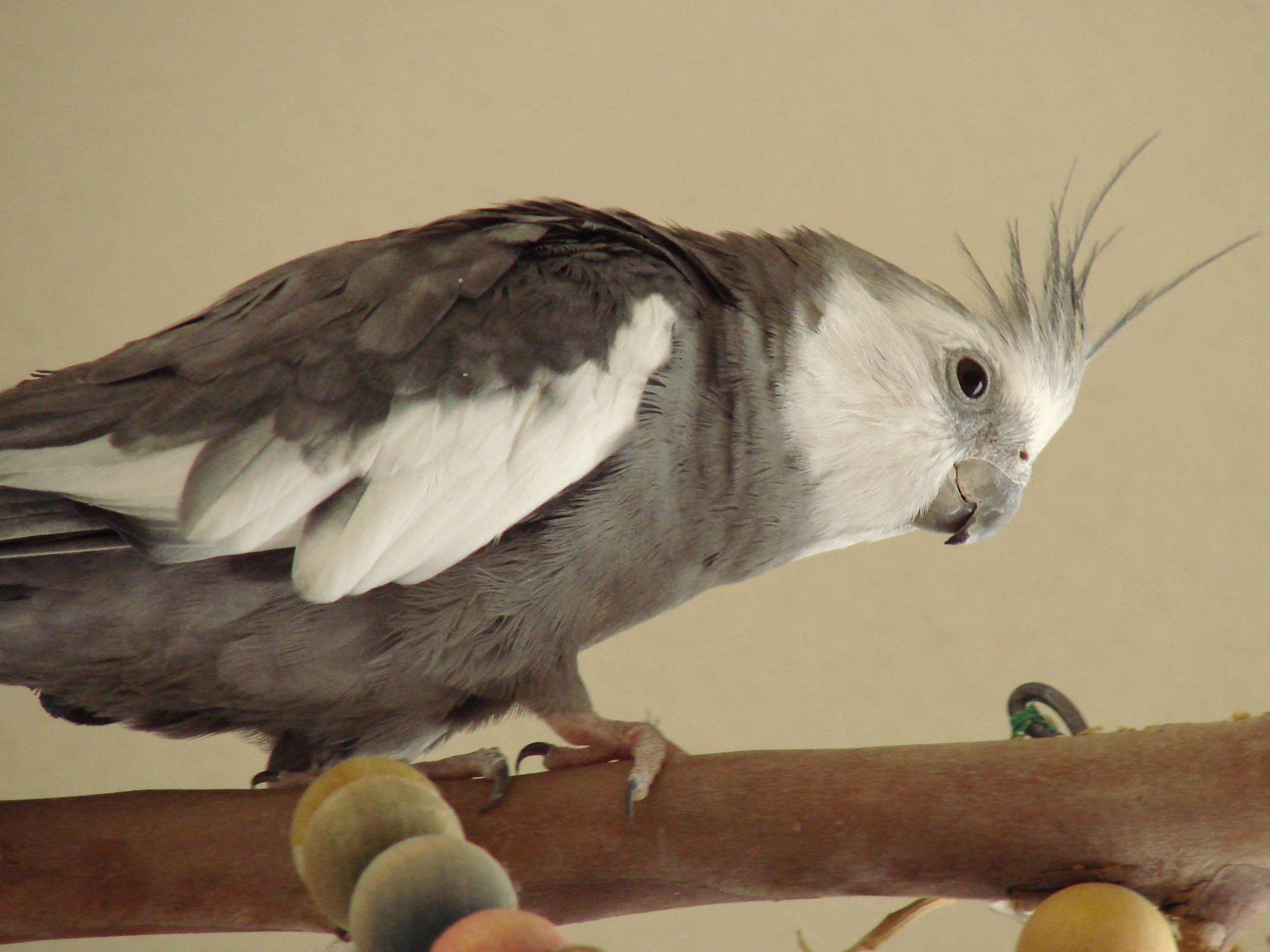 A pet cockatile - side view of the grey colour mutation.